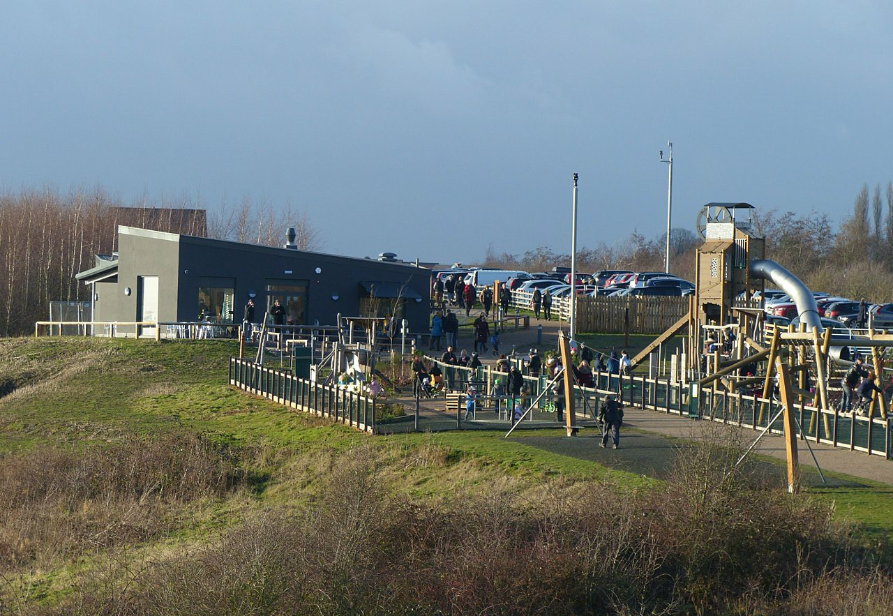 Visitor centre at gedling country park